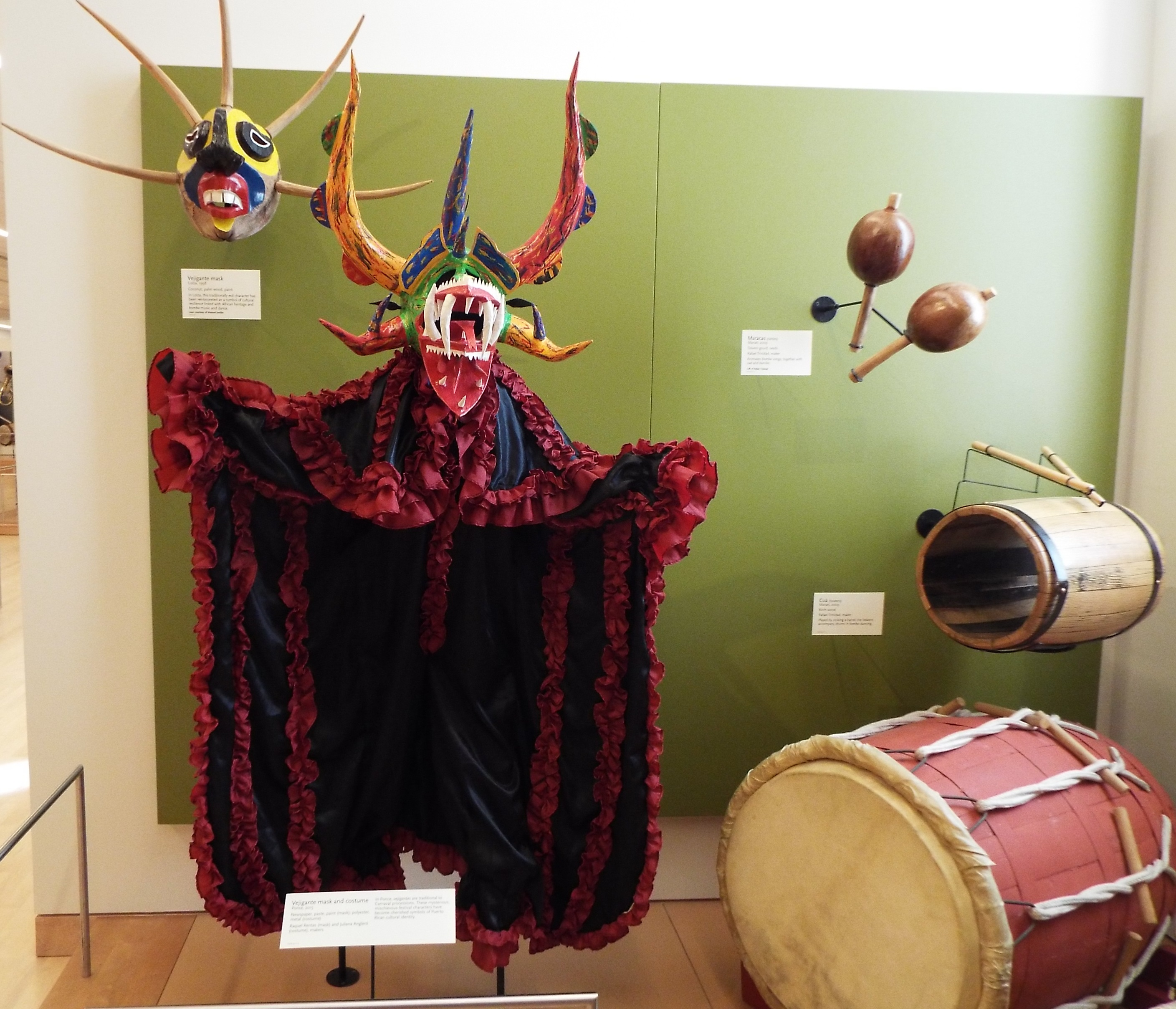 Vejigante Mask and Costume from Loiza, Puerto Rico on exhibit in the Musical Instrument Museum in Phoenix.